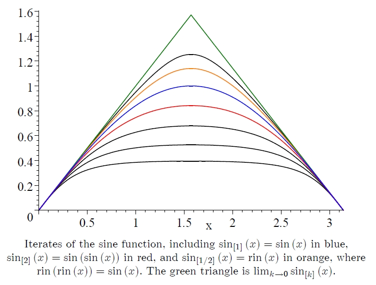 Iterates of the sine function (blue), in the first half-period. Half-iterate (orange), i.e., the sine's functional square root; the functional square root of that, the quarter-iterate (black) above it; and four integral iterates below it, starting with the second iterate (red). The green envelope triangle represents the limiting null iterate, the sawtooth function serving as the starting point leading to the sine function. From the general pedagogy web-site.